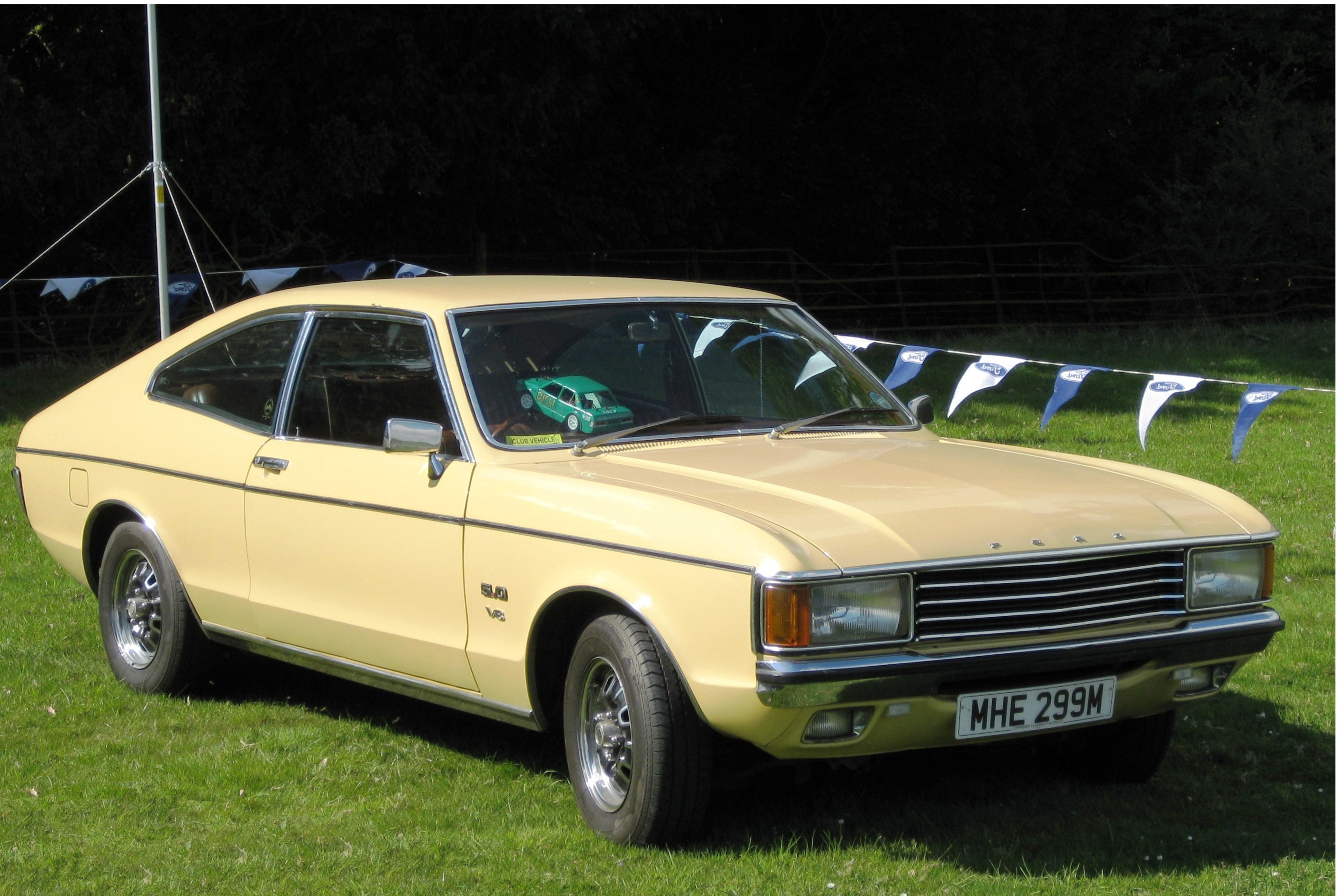 Ford Granada Mk I coupe first version. (The rear three quarter pillar was 'tidied up' after a couple of years.)